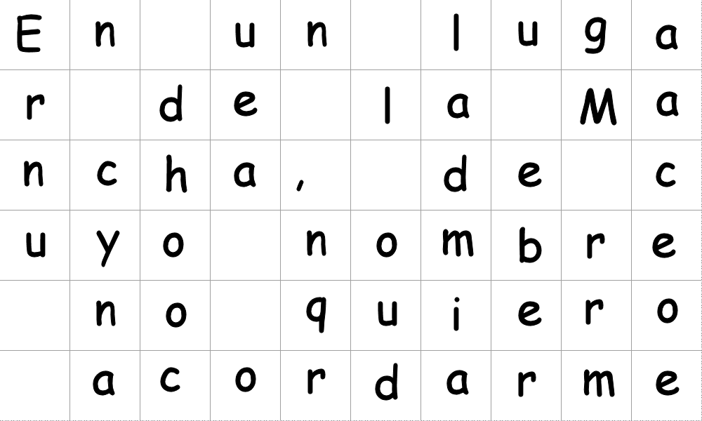 Example of: text distributed around one table with a pre-fixed width for explicate the transposition in cryptographic.